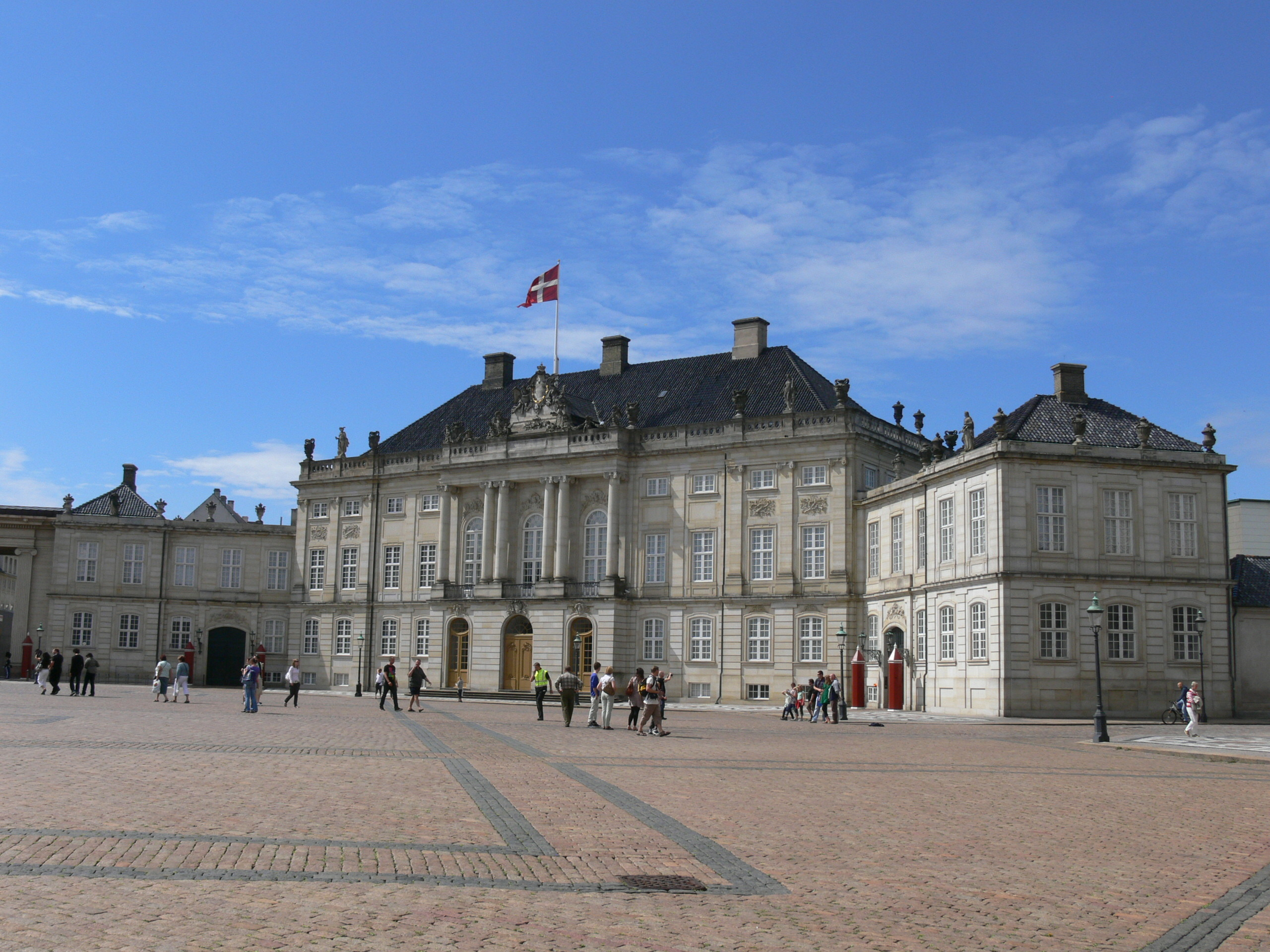 Amalienborg Palace ( Copenhagen ). Palace square.